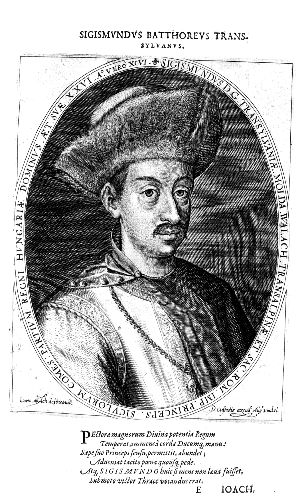 Sigismund Báthory, Prince of Transylvania, copper engraving